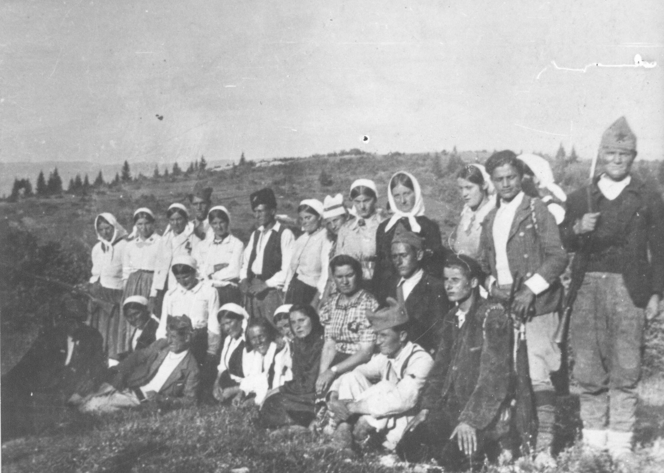 Members of the 1st Krajina Agricultural Shock Brigade who reaped grain in the valley of the Sanica River, western Bosnia, protected by Yugoslav Partisans (WWII)